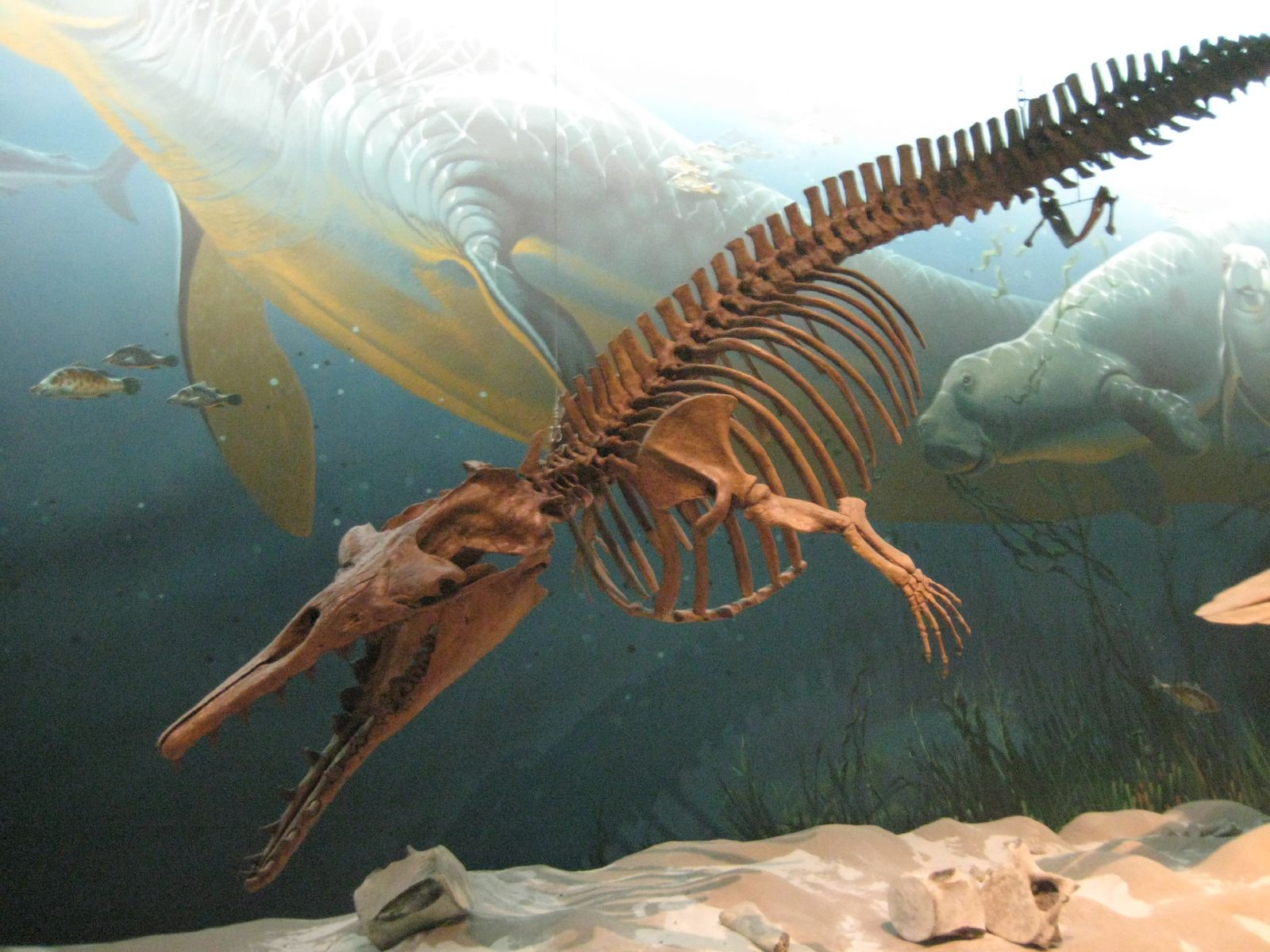 Zygorhiza kochii an early whale, 39-37 Ma Late Eocene, look, it has arms!!